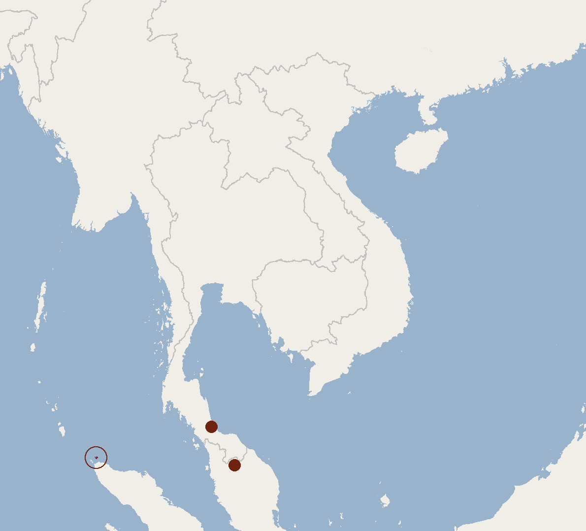 According to Francis, 2008